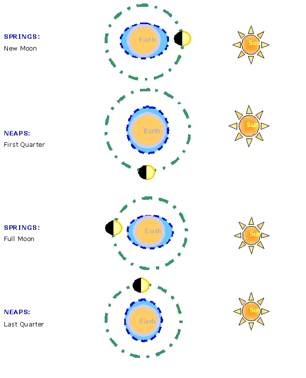 The picture shows how tides are created by the rotation of the earth and the moon around the sun.